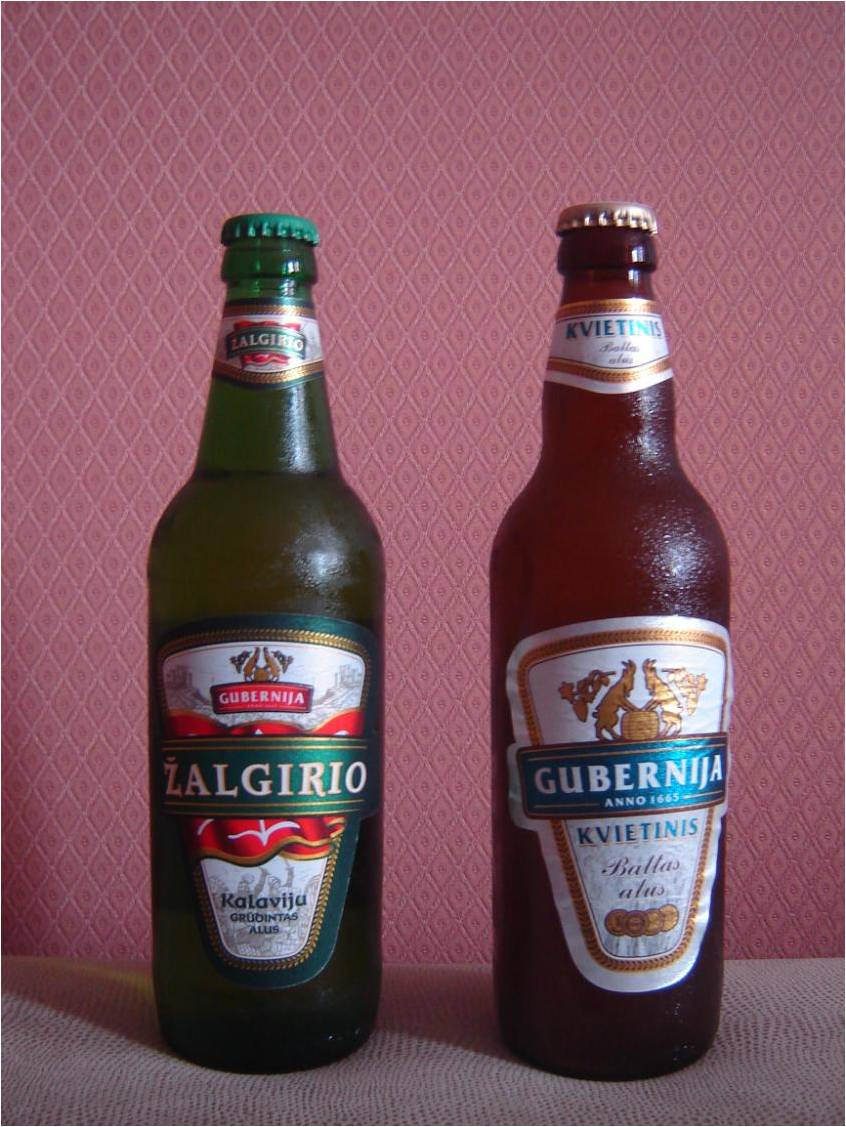 Bottles of beer brewed by Lithuanian brewery "Gubernija"